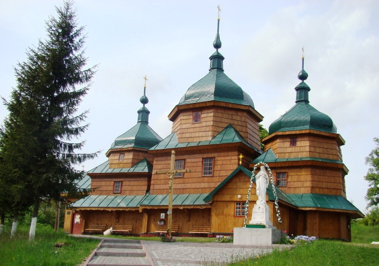 The Saint Mary Church in Pykulovichi, Lviv Oblast, Ukraine